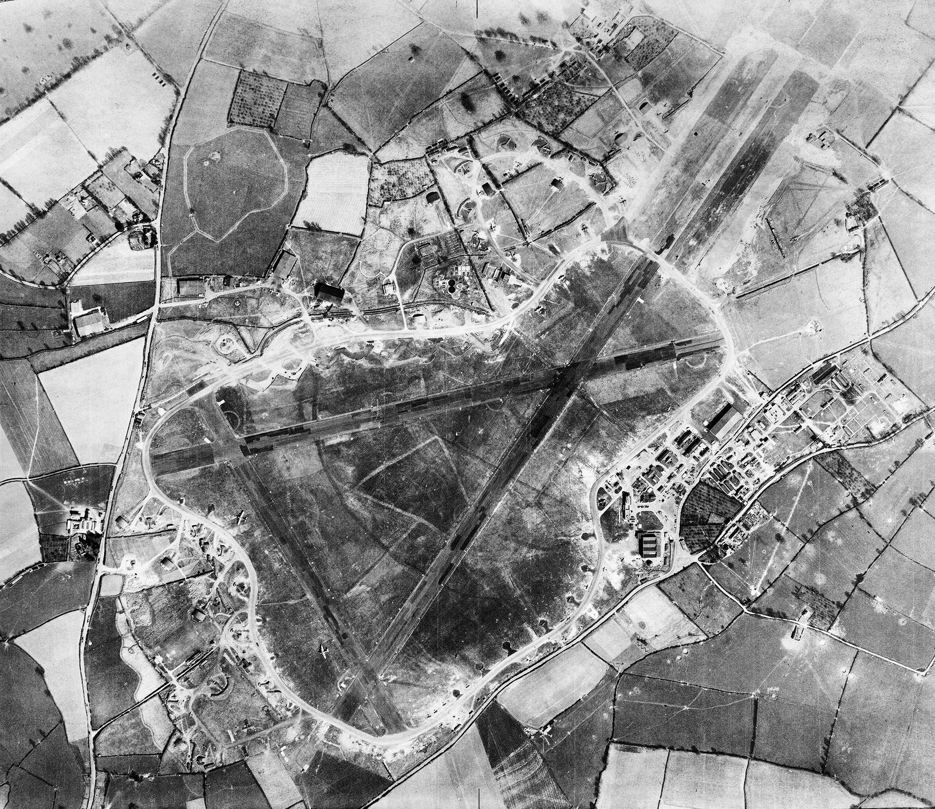 Aerial photograph of Exeter airfield looking north west, the technical site is on the left, 20 March 1944. Photograph taken by 7th Photographic Reconnaissance Group, sortie number US/7PH/GP/LOC252. English Heritage (USAAF Photography).